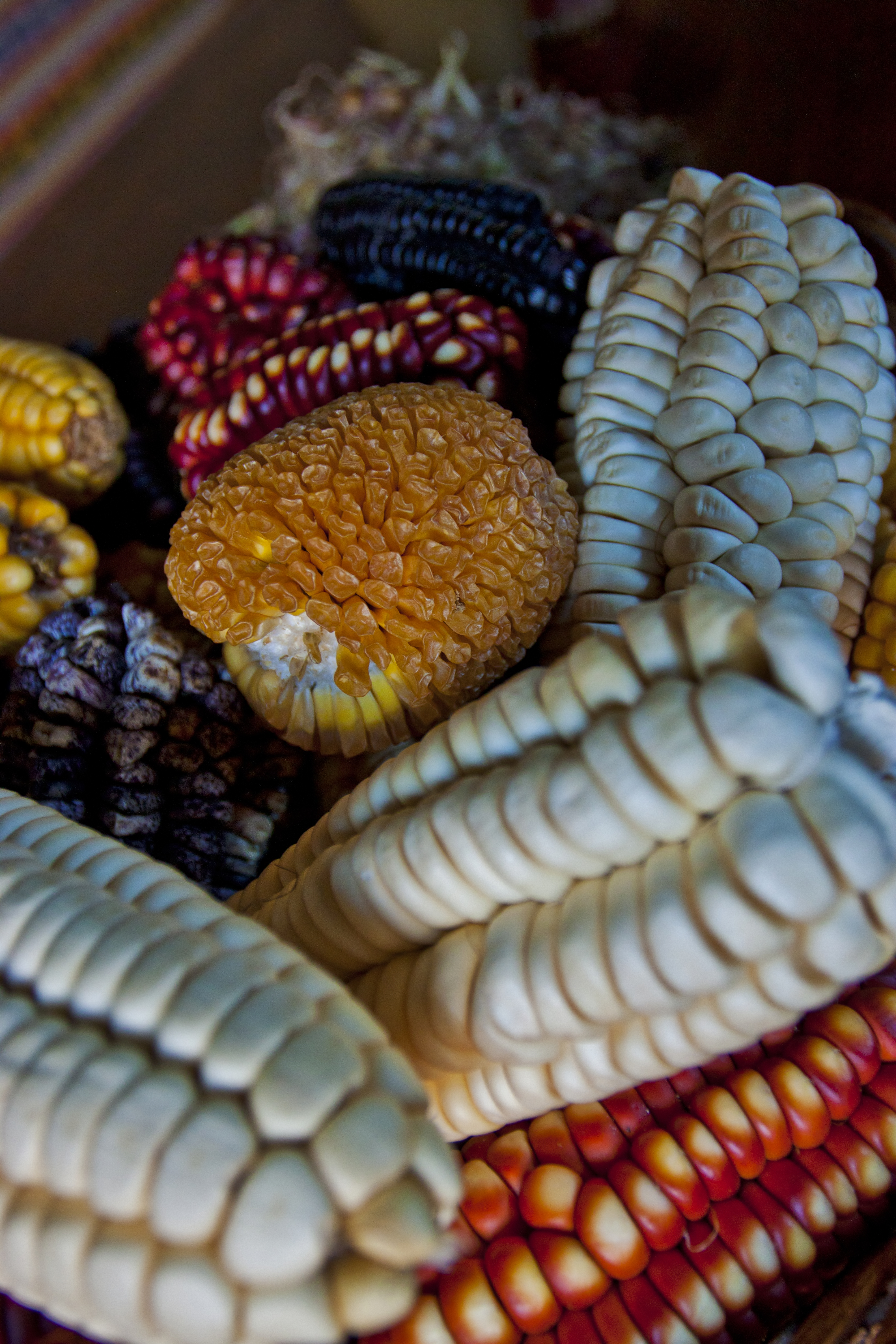 Different breeds of maize, Andean varieties, corn, Peru, Latin America, Food diversity